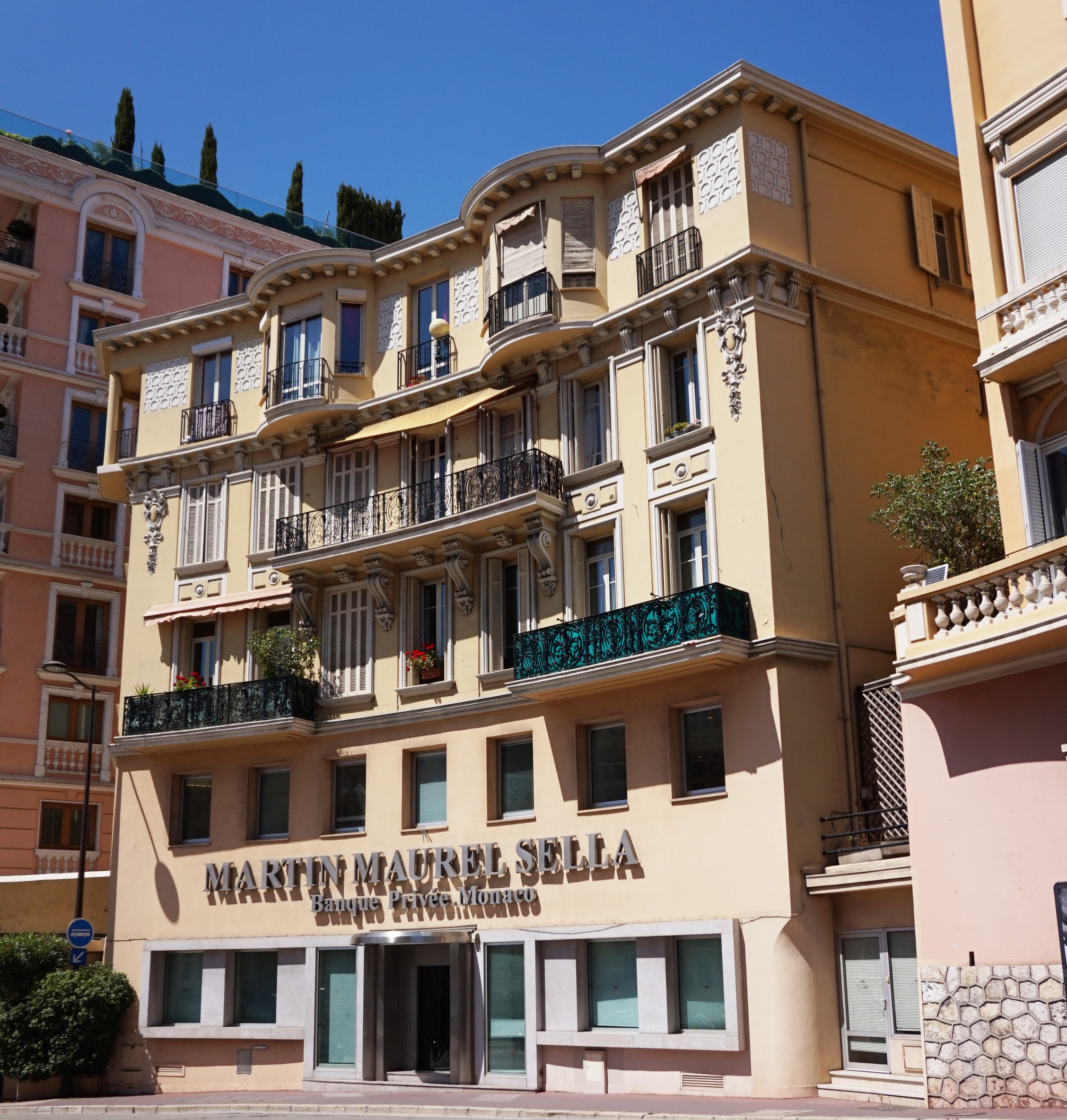 Martin Maurel Sella bank in Monaco.This photograph was taken with a Sony ILCE-5000